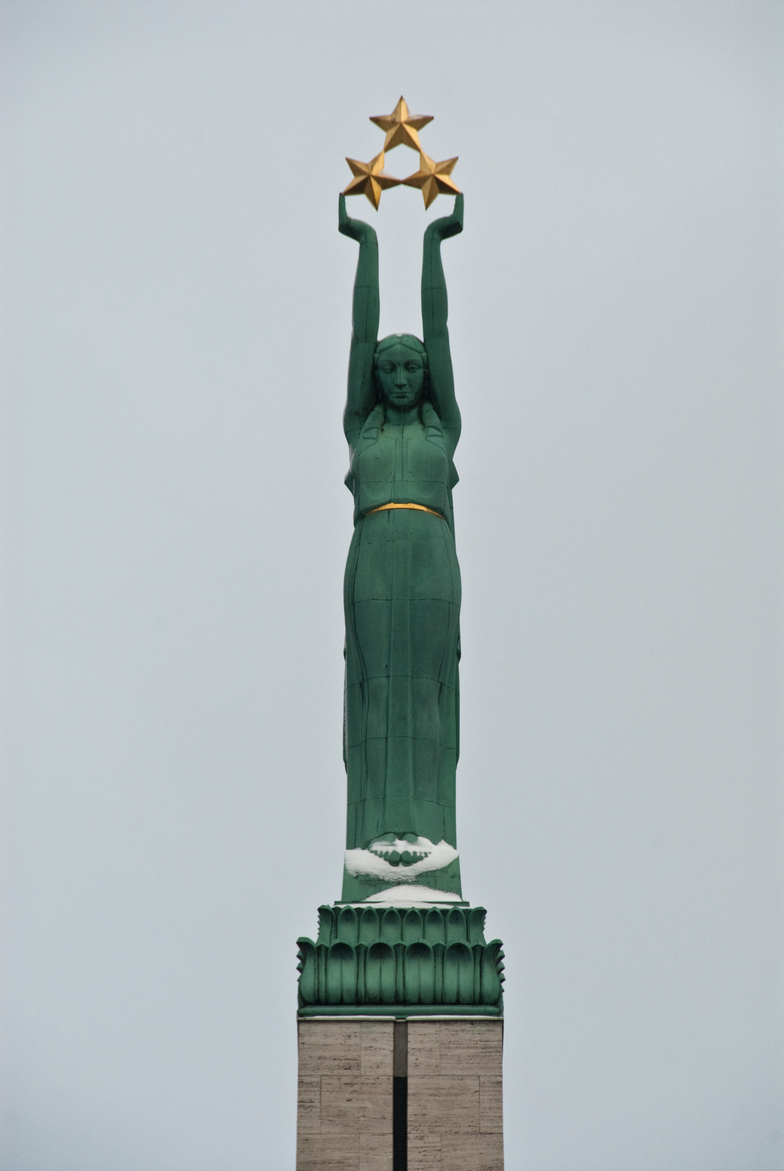 Freedom Monument in Riga, closeup